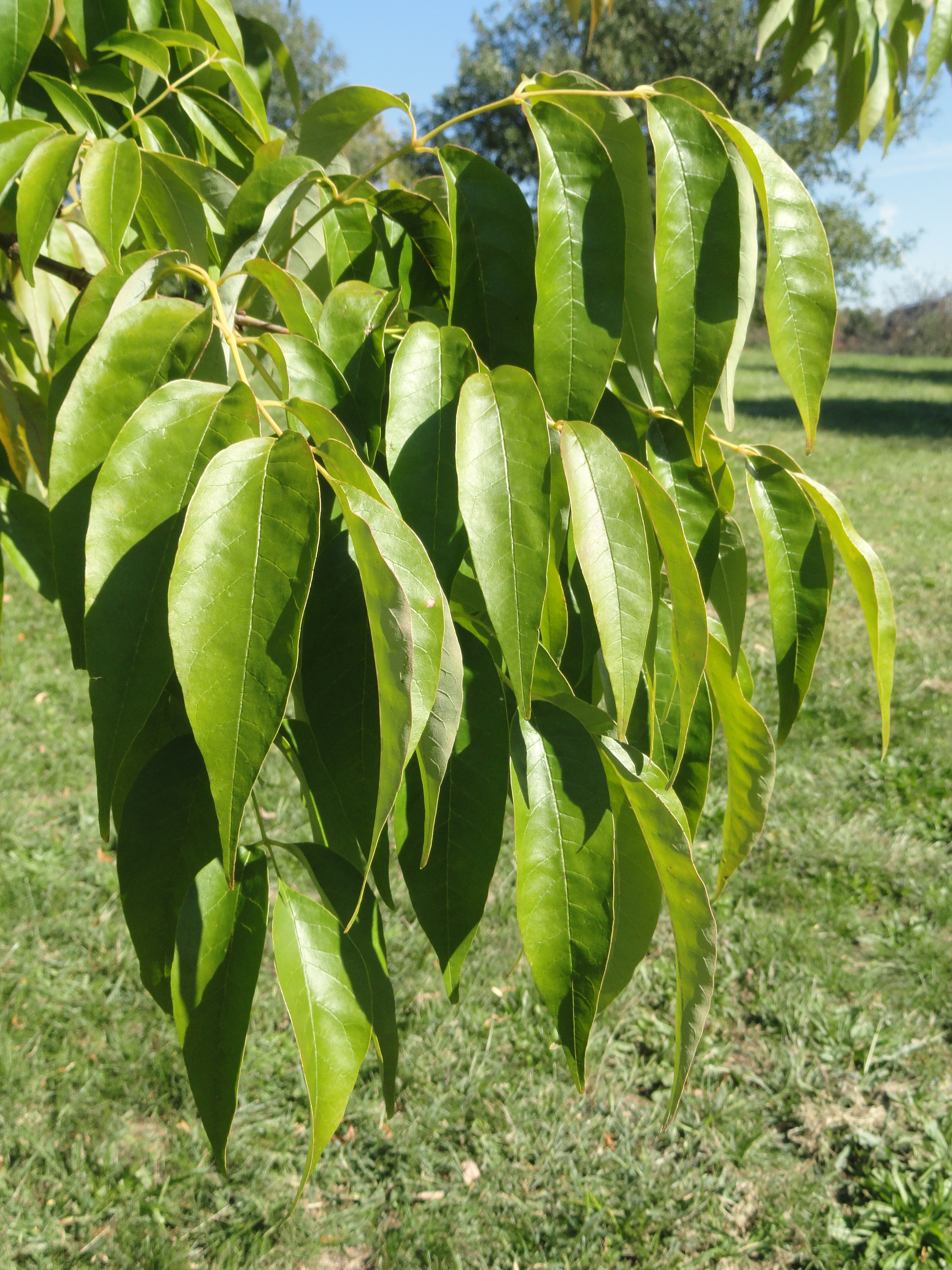 Botanical specimen in the University of Kentucky Arboretum, Lexington, Kentucky, USA.